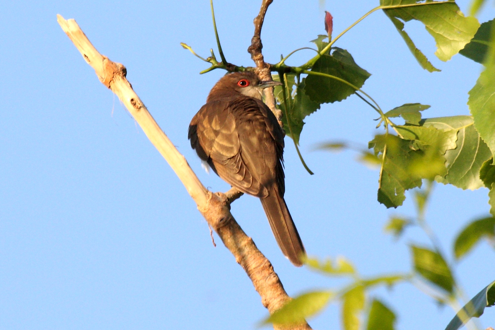 Black-billed Cuckoo (Coccyzus erythropthalmus)